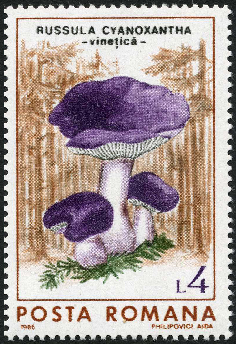 Russula cyanoxantha (Schaeff.) Fr. on Romanian stamp (1986, 4 lei, Michel №4292)